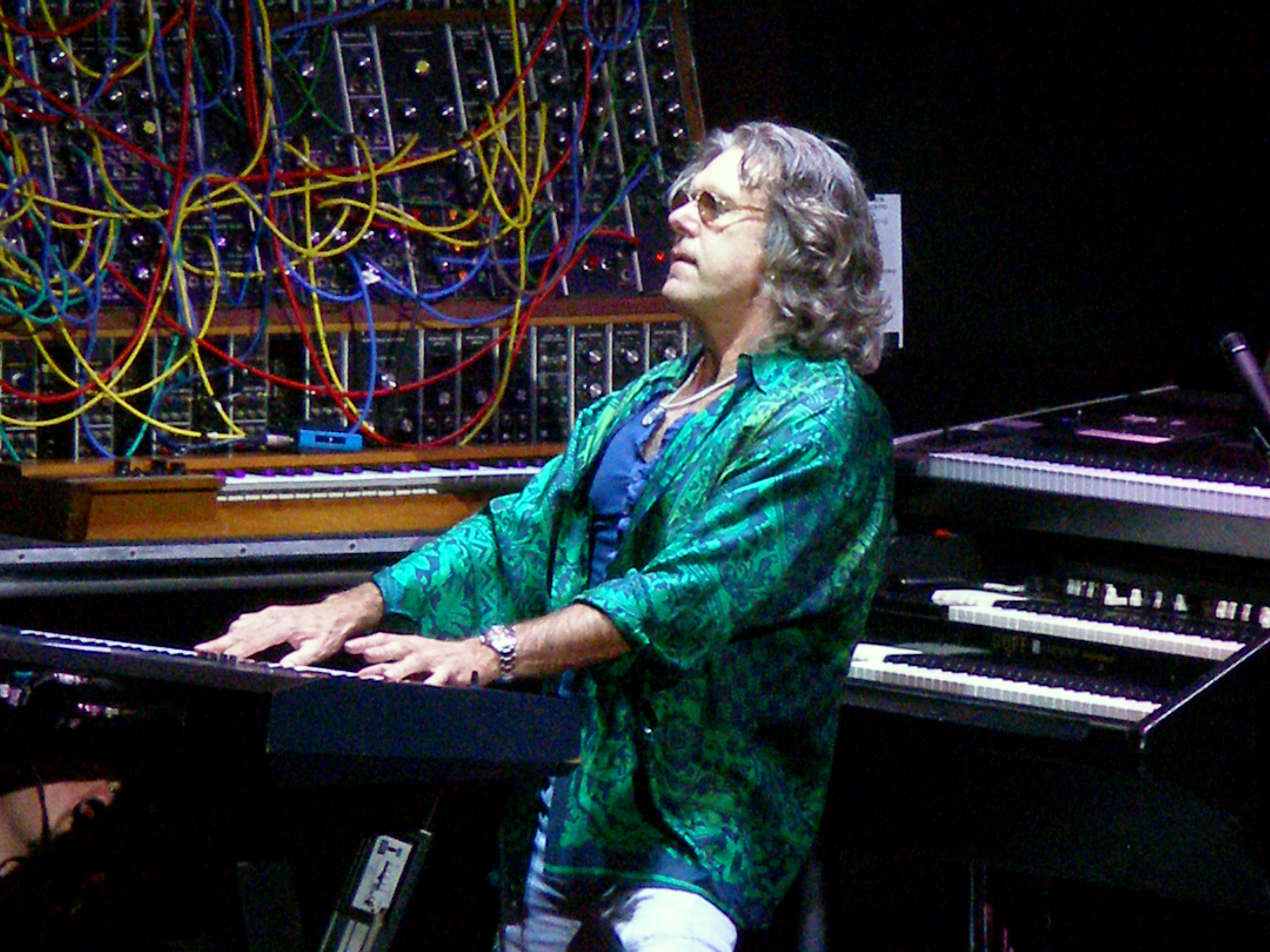 Keith Emerson in concert with his band at Nearfest 2006